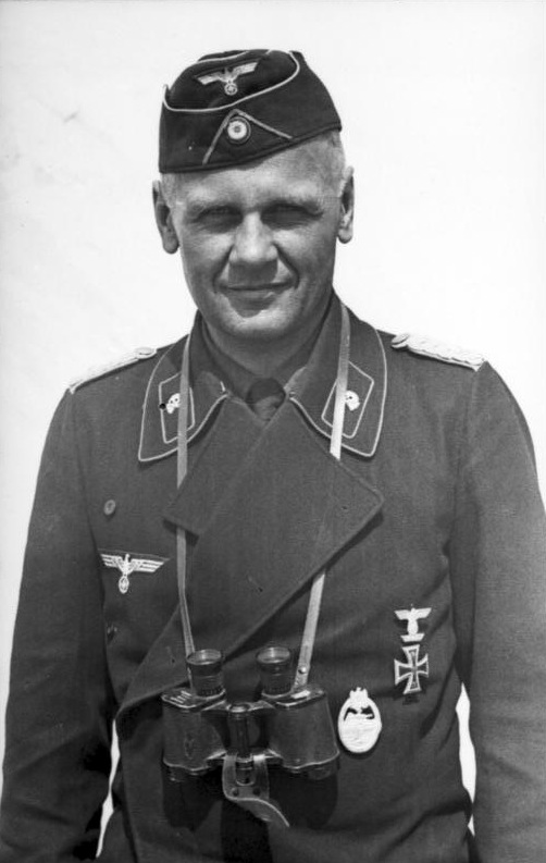 Information added by Wikimedia users.Russia, June 1941. German Armoured troops Lieutenant Colonel Gustav-Adolf Riebel (see here) with binoculars and awards. Born on 13 March 1896, promoted to Major general on 1 August 1942, killed in action 23 August 1942.